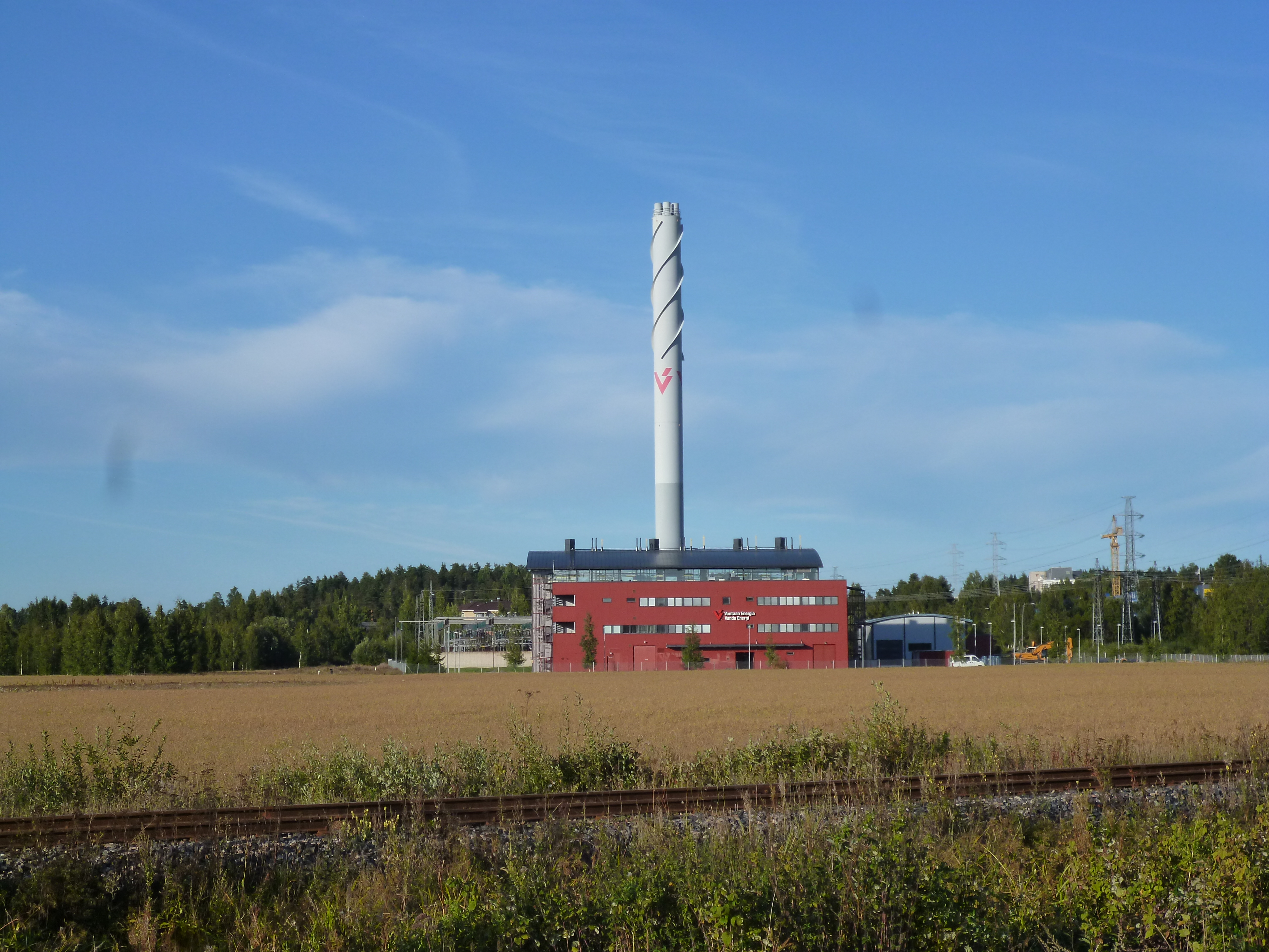 Vantaan Energia district heating Maarinkunnaan power plant.